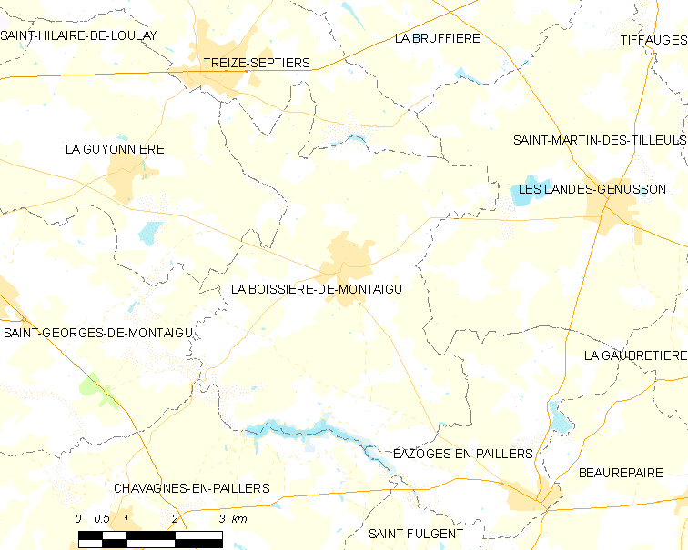 Map of French municipality La Boissière-de-Montaigu